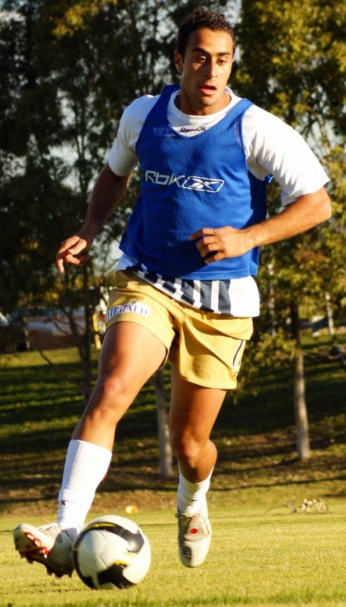 Tarek Elrich at Newcastle Jets training